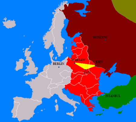 A map showing the world in the novel Xavras Wyżryn. Map Key: Union of Soviet Socialist Republics European War Zone The Atomic Triangle Advancing Chinese forces Islamic Empire Other countries